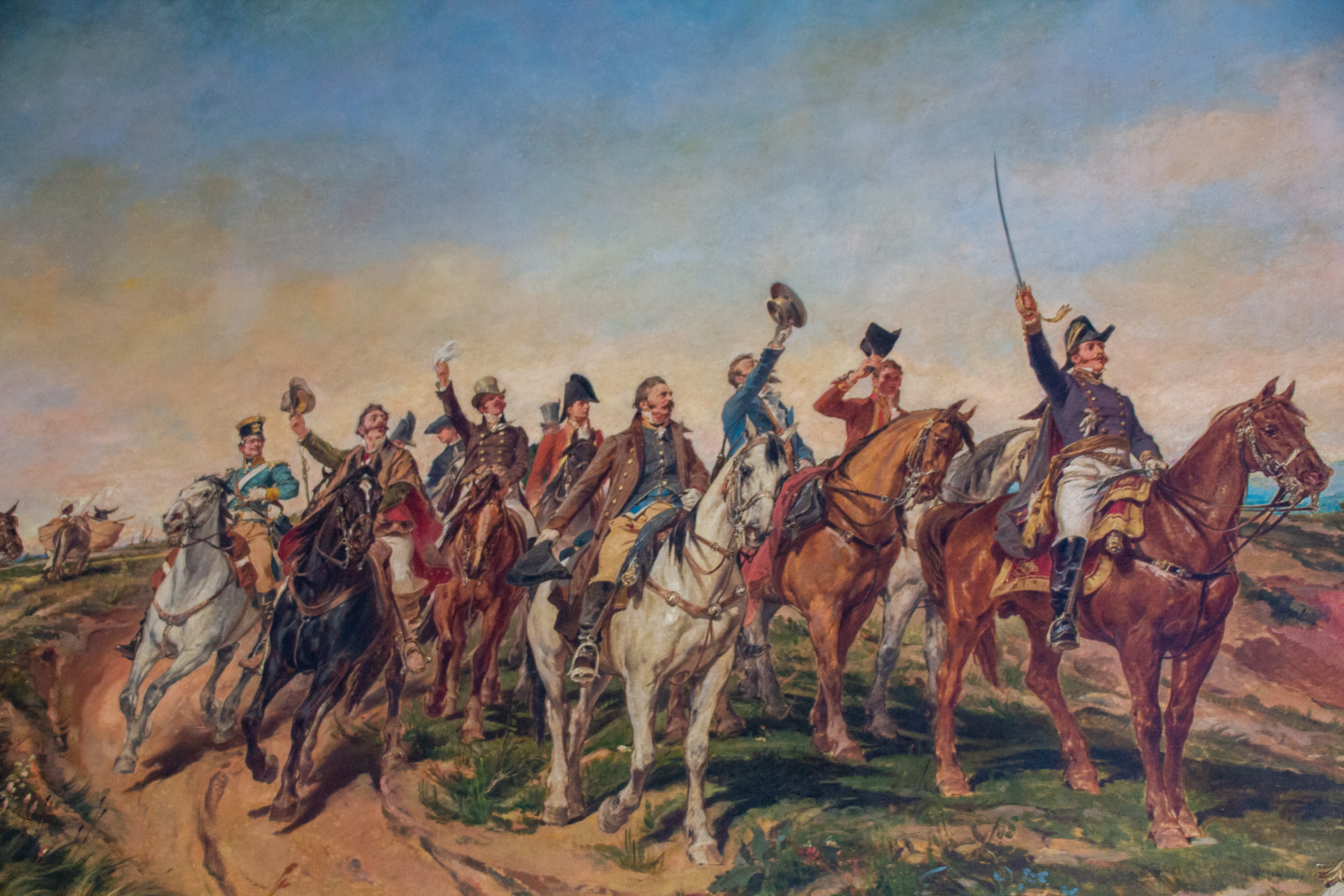 Backstage tour of the Museu do Ipiranga, University of São Paulo, Brazil